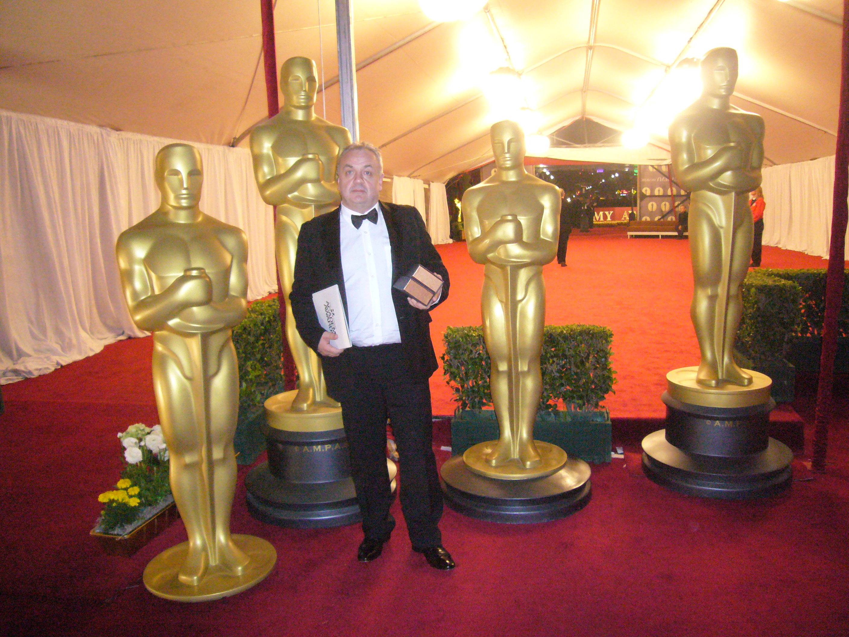 Oscar's ceremony 2010